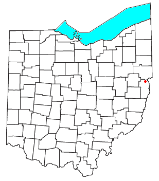 Locator map of the unincorporated community of Hammondsville in Jefferson County, Ohio, United States.